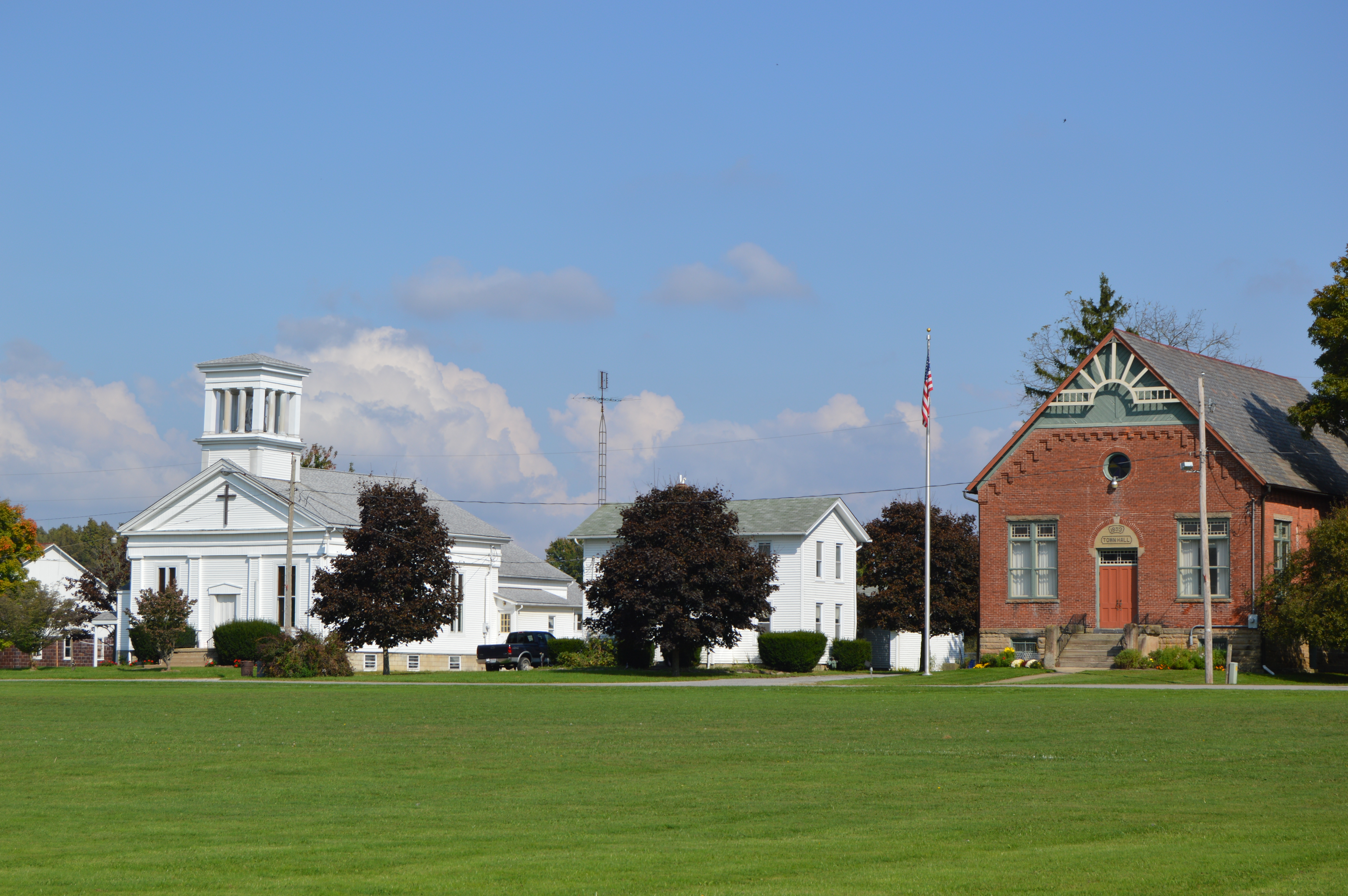 Buildings on the eastern side of the Bloomfield town green at North Bloomfield, Ohio, United States, including the Methodist church at left and the 1893 township hall at right. Photo looks east from State Route 45.